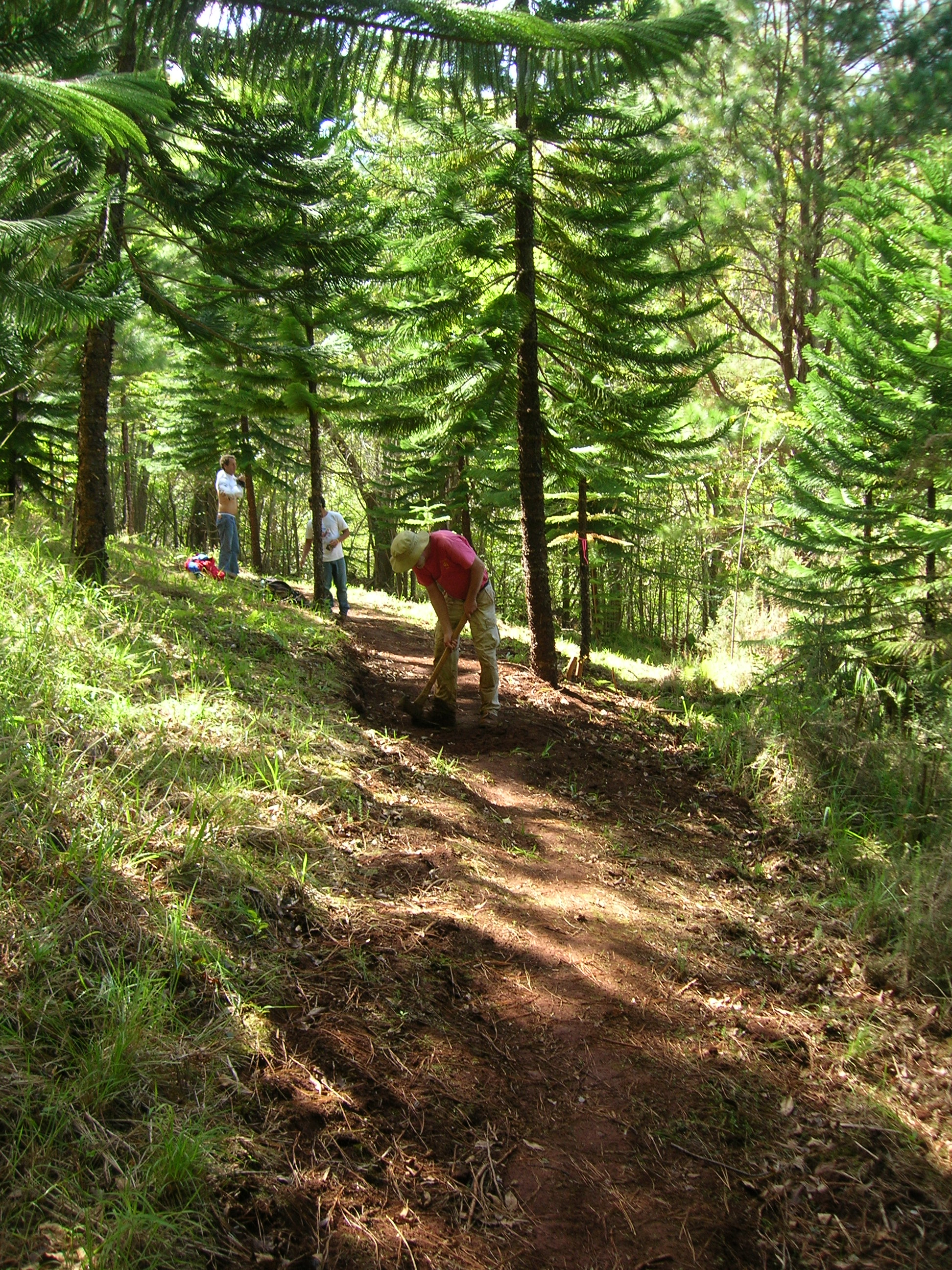 Building trail with volunteers. Location: Maui, Makawao Forest Reserve